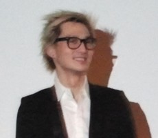 Masanobu Ando at the Stockholm International Film Festival, 16 Nov 2011.